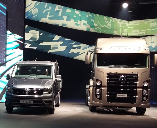 Der MAN TGE und Volkswagen Constellation